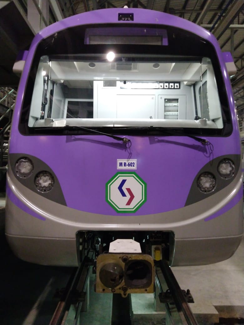 2nd rake of Kolkata Metro Line 2, numbered MR-602